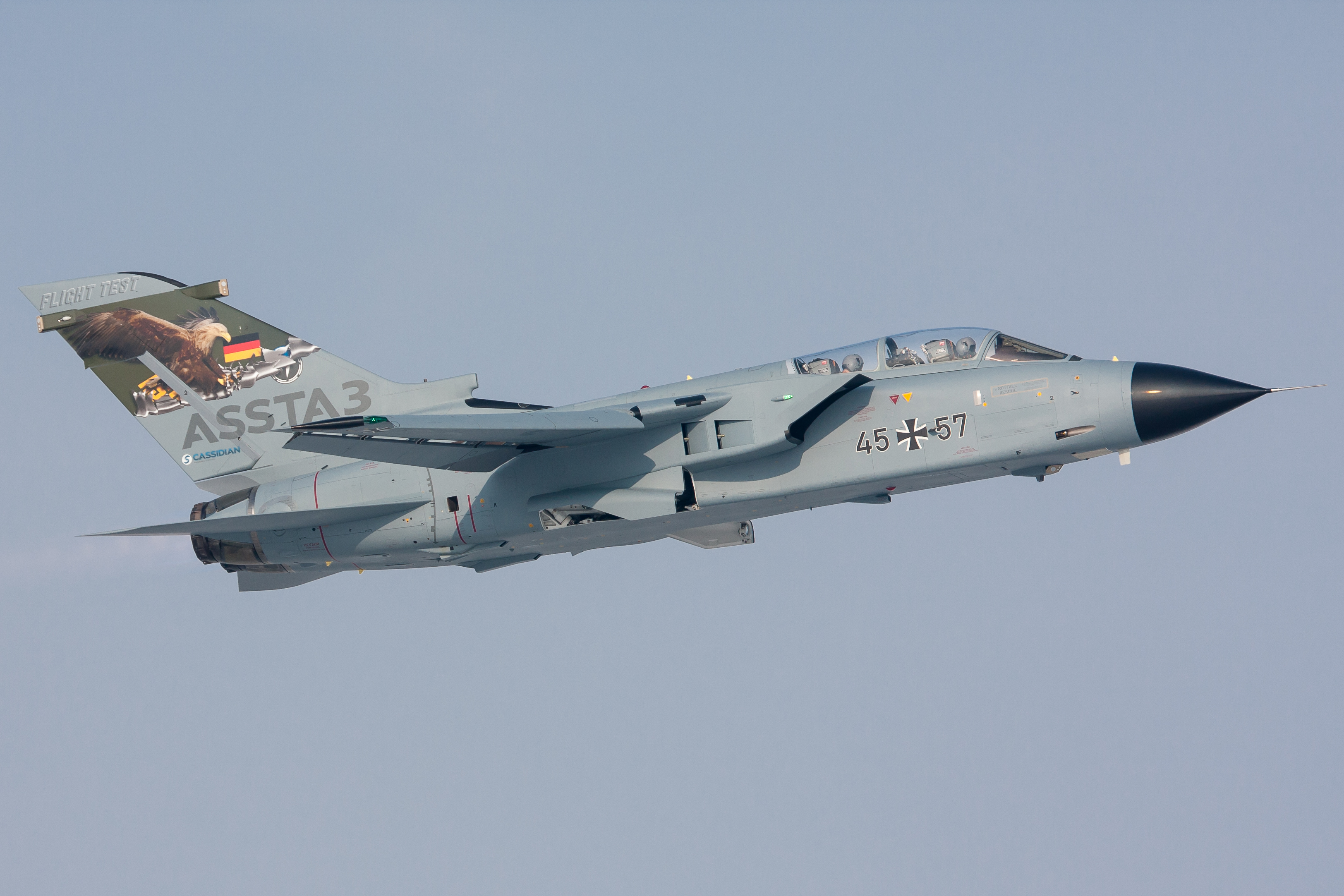 German PA200 Tornado taking off from ETSI (Manching). This aircraft was the first Tornado which received the ASSTA 3 upgrade.